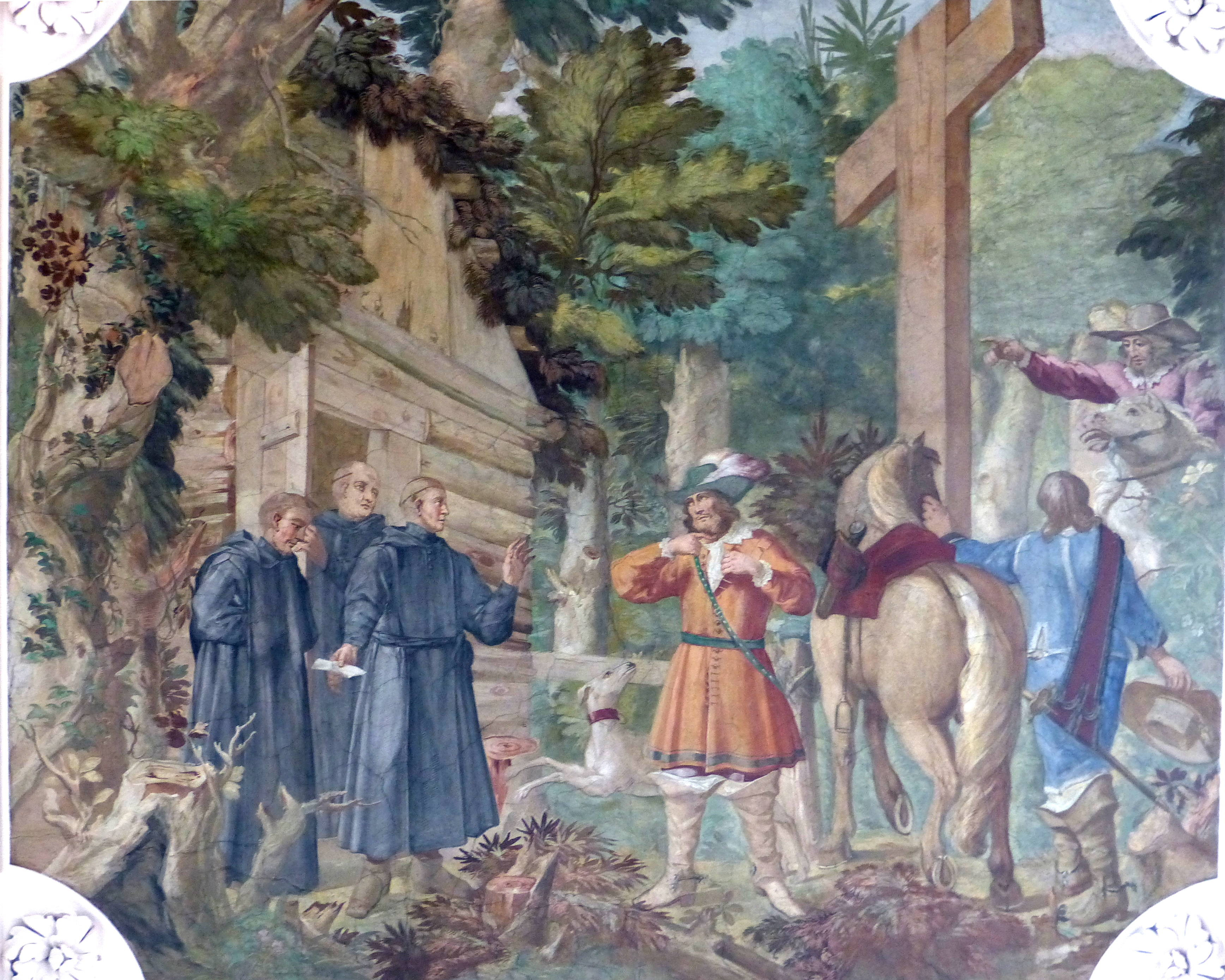 Waldsassen ( Upper Palatinate ). Abbey church: Fresco ( 1695-98 ) by Johann Jakob Steinfels - Foundation legend: Margrave Diepold III of Vohburg-Cham meets his former friend Gerwig as hermit in the woods.This is a photograph of an architectural monument.